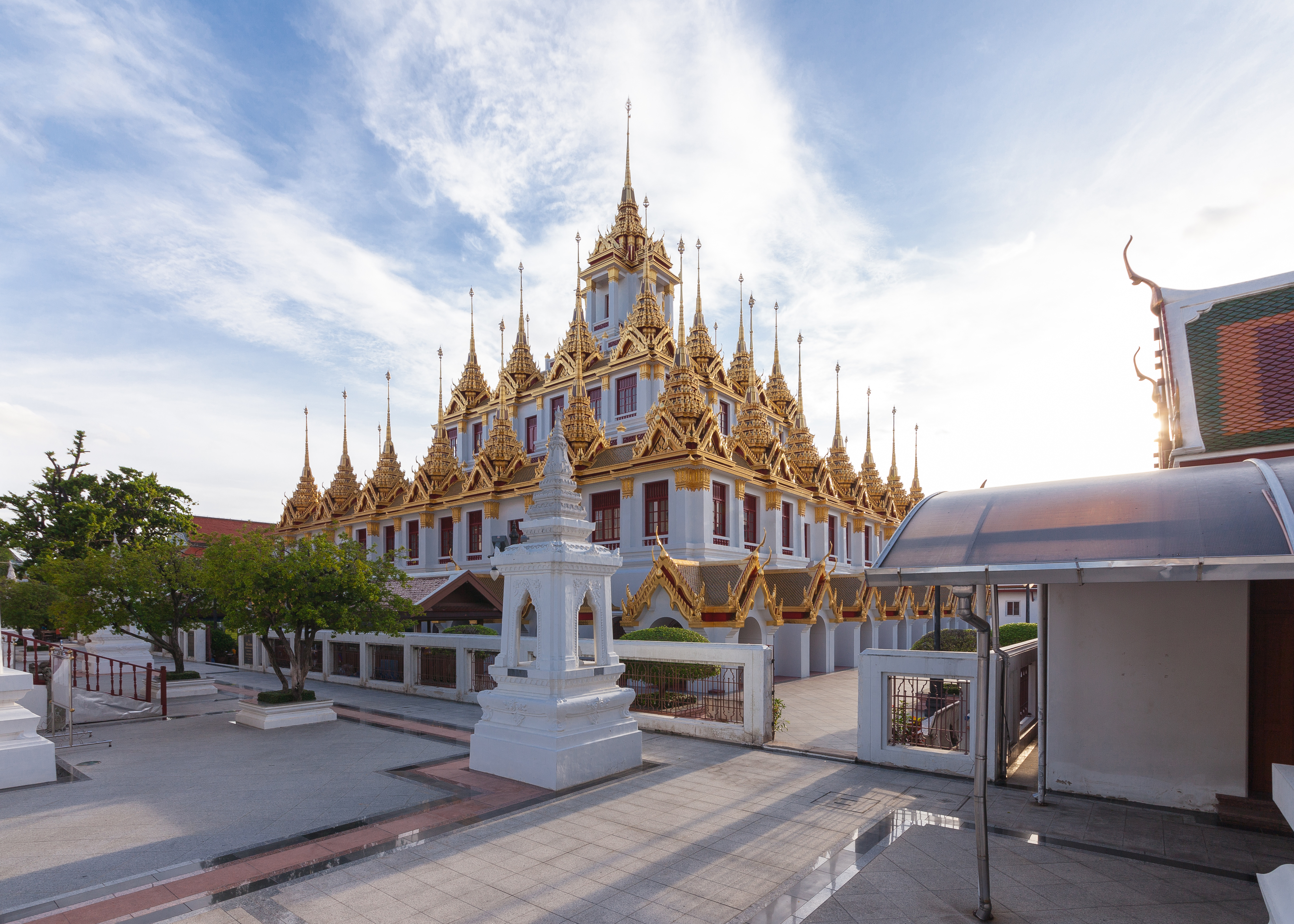 Loha Prasat (the iron castle or iron monastery) Wat Ratchanatda, Bangkok.